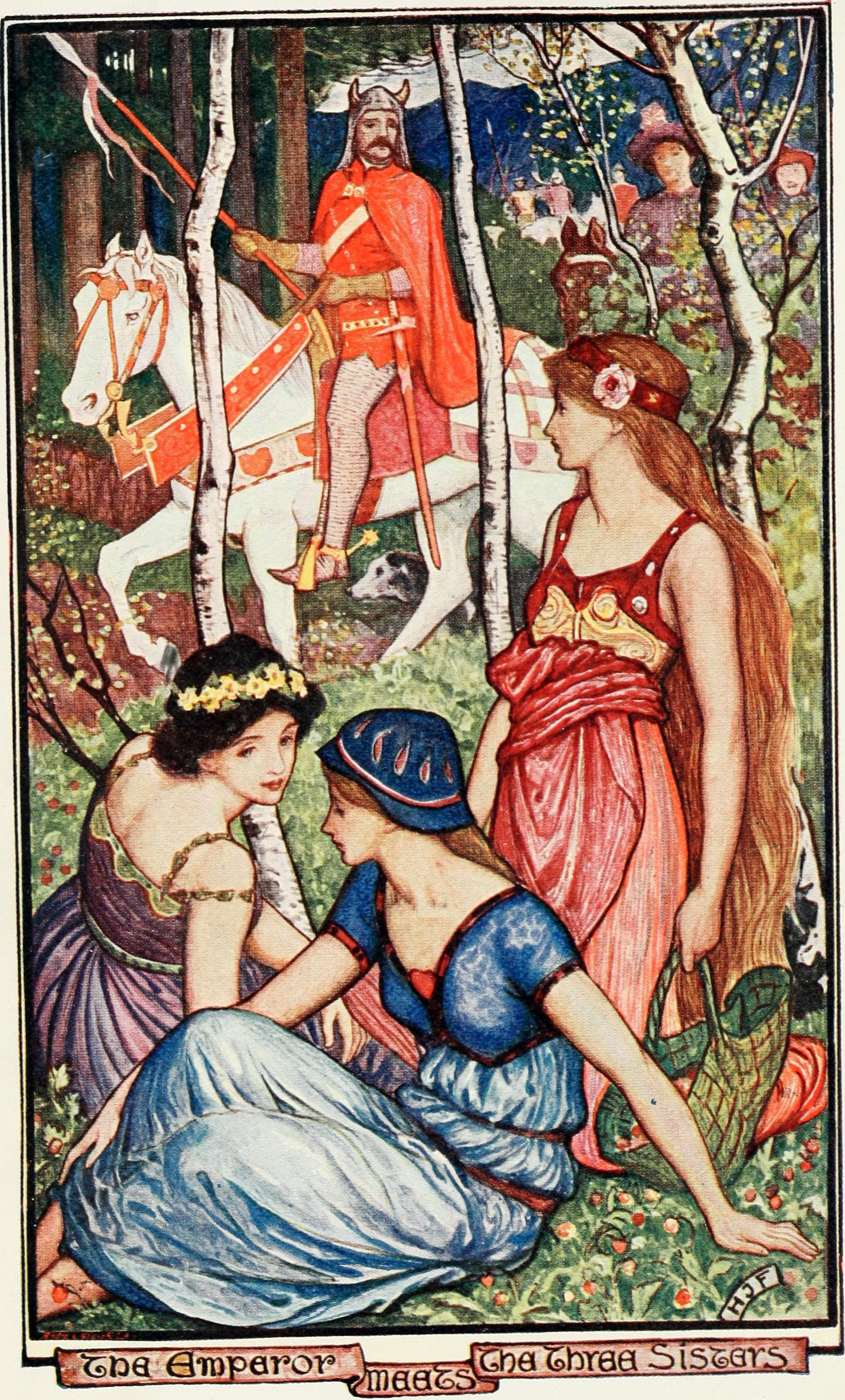 Title: The violet fairy book Year: 1906 (1900s) Authors: Lang, Andrew, 1844-1912 Ford, H. J. (Henry Justice), 1860-1941, ill Subjects: Folklore Fairy tales Publisher: London New York : Longmans, Green Text Appearing Before Image: HE GREEN FAIRY BOOK. With 99 Illustrations. $2.00. THE GREY FAIRY BOOK. With 65 Illustrations. $2.00. THE YELLOW FAIRY BOOK. With 104 Illustrations. $2.00. THE PINK FAIRY BOOK. With 67 Illustrations. $2.00. THE VIOLET FAIRY BOOK. With S Coloured Plates and 54other Illustrations. Net, $1.60. By mail, $1.75. THE CRIMSON FAIRY BOOK. With 8 Coloured Plates and45 other Illustrations. Net, $1.60. By mail, $1.75. THE BROWN FAIRY BOOK. With 8 Coloured Plates and 42other Illustrations. Net, $1.60. By mail, $1.75. THE BLUE POETRY BOOK. With 100 Illustrations. $2. on.THE TRUE STORY BOOK. With 66 Illustrations. $2.00. THE RED TRUE STORY BOOK. With 100 Illustrations.$2.00. THE ANIMAL STORY BOOK. With 67 Illustrations. $2.00. THE RED BOOK OF ANIMAL STORIES. With 65 Illus-trations. $2.00. THE ARABIAN NIGHTS ENTERTAINMENTS. With 66 Illustrations. $2. on. THE BOOK OF ROMANCE. With 8 Coloured Plates and 44other Illustrations. Net, $1.60. By mail, $1.75. LONGMANS, GREEN, & CO. NEW YORK LONDON BOMBAY Text Appearing After Image: THE VIOLET FAIRY BOOK EDITED BY ANDREW LANGvioletfairybook00lang